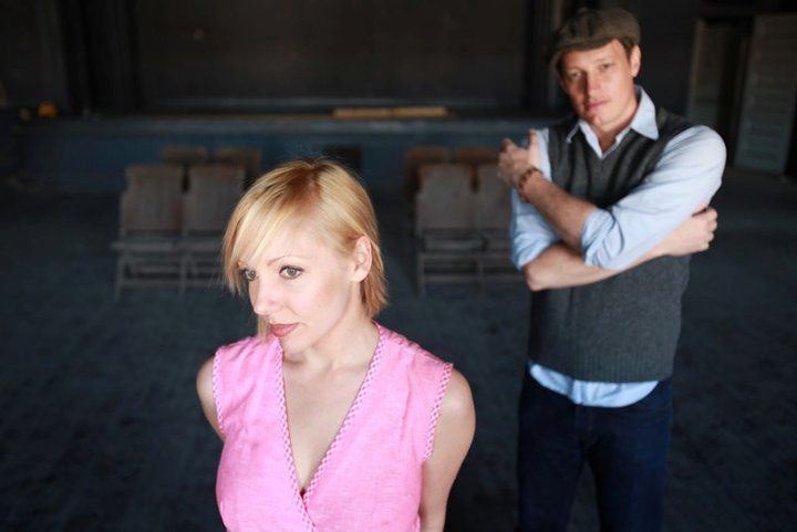 Kelly Crisp and Ivan Howard of The Rosebuds